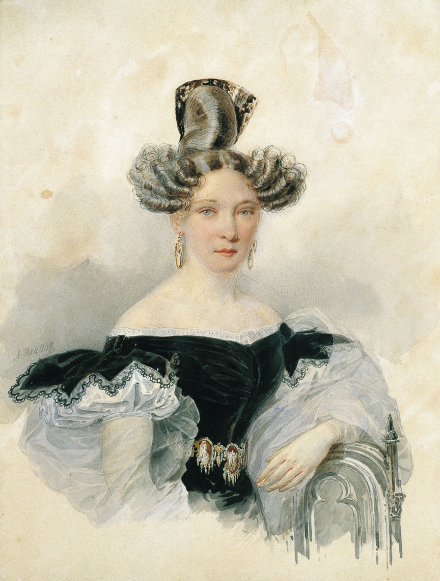 AP Brullov. Portrait of Princess S. Lvova. 1830s. Bristol board, watercolor, pencil, varnish. Entered by NN Vlasova, Moscow, in 1977. GMP. Princess Sophia Alekseevna Lviv, nee Perovskaya (1811-1883) - illegitimate daughter of Count AK Razumovsky, sister, brothers, VA and LA Perovsky, later wife of Prince Vladimir Lvov (1804-1856), writer, the censor. A relative of AK Tolstoy and brothers Zhemchuzhnikov familiar Turgenev AP Brullov. Portrait of Princess S. Lvova. 1830-ies. Bristol board, watercolor, pencil, varnish. In the State Museum. AS Pushkin came from NN Vlasova, Moscow, in 1977. GMP.